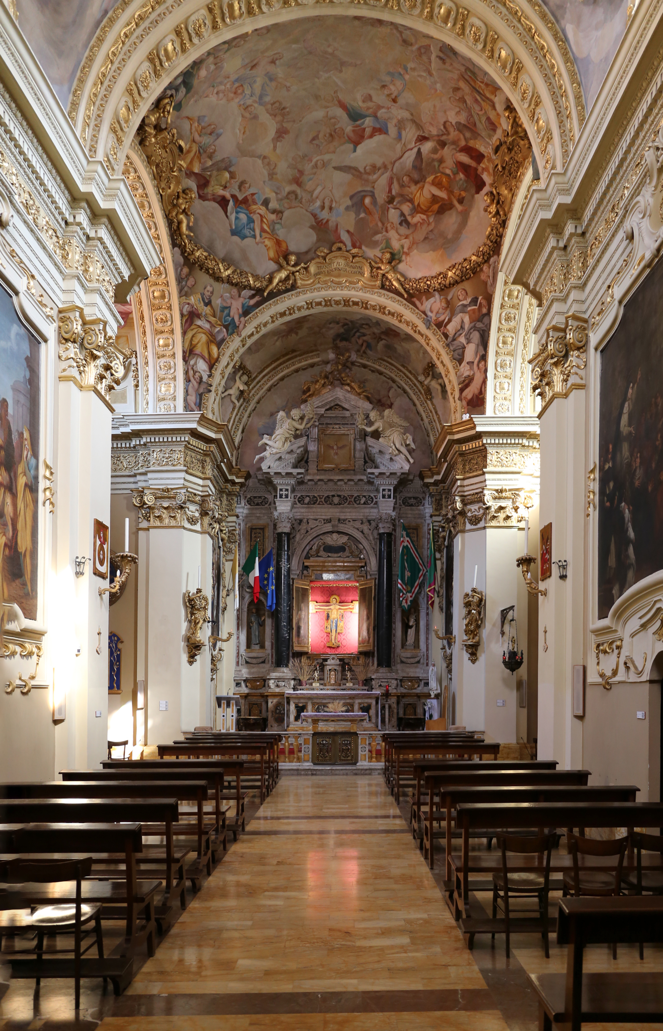 House of Saint Catherine of Siena